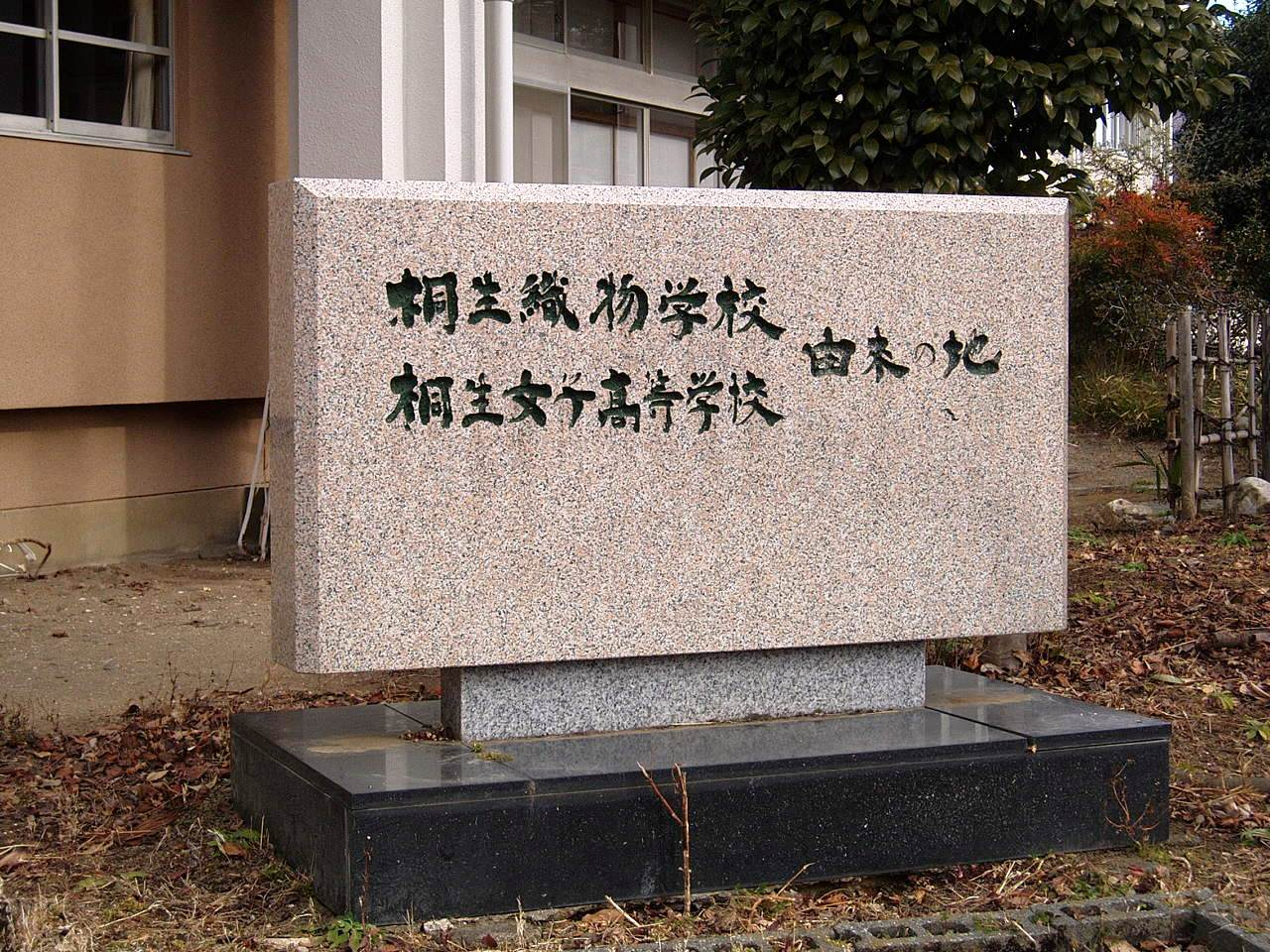 A memorial of Kiryu Textile School (1896-1913) and Kiryu Girls' High School (1913-1972), located in 1-chome, Nakamachi, Kiryu, Gunma, Japan.